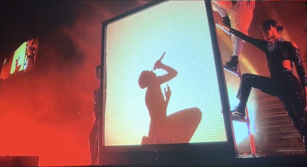 Olly with his backup dancers during performance of worship at the London 02 Arena 5.12.18